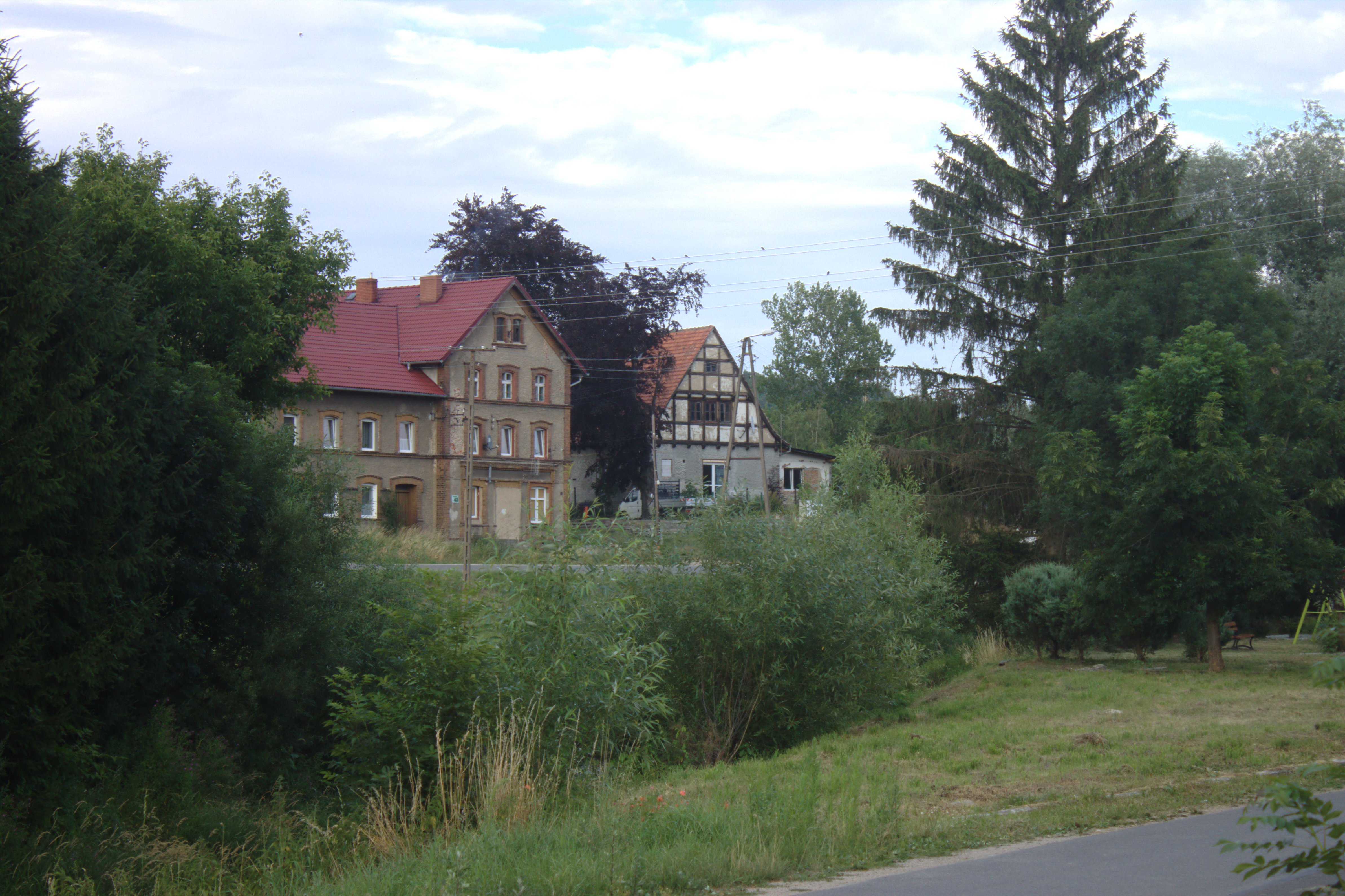 This photograph was created as a part of Wikiexpedition Lower Silesia, a project supported by Wikimedia Poland grant.